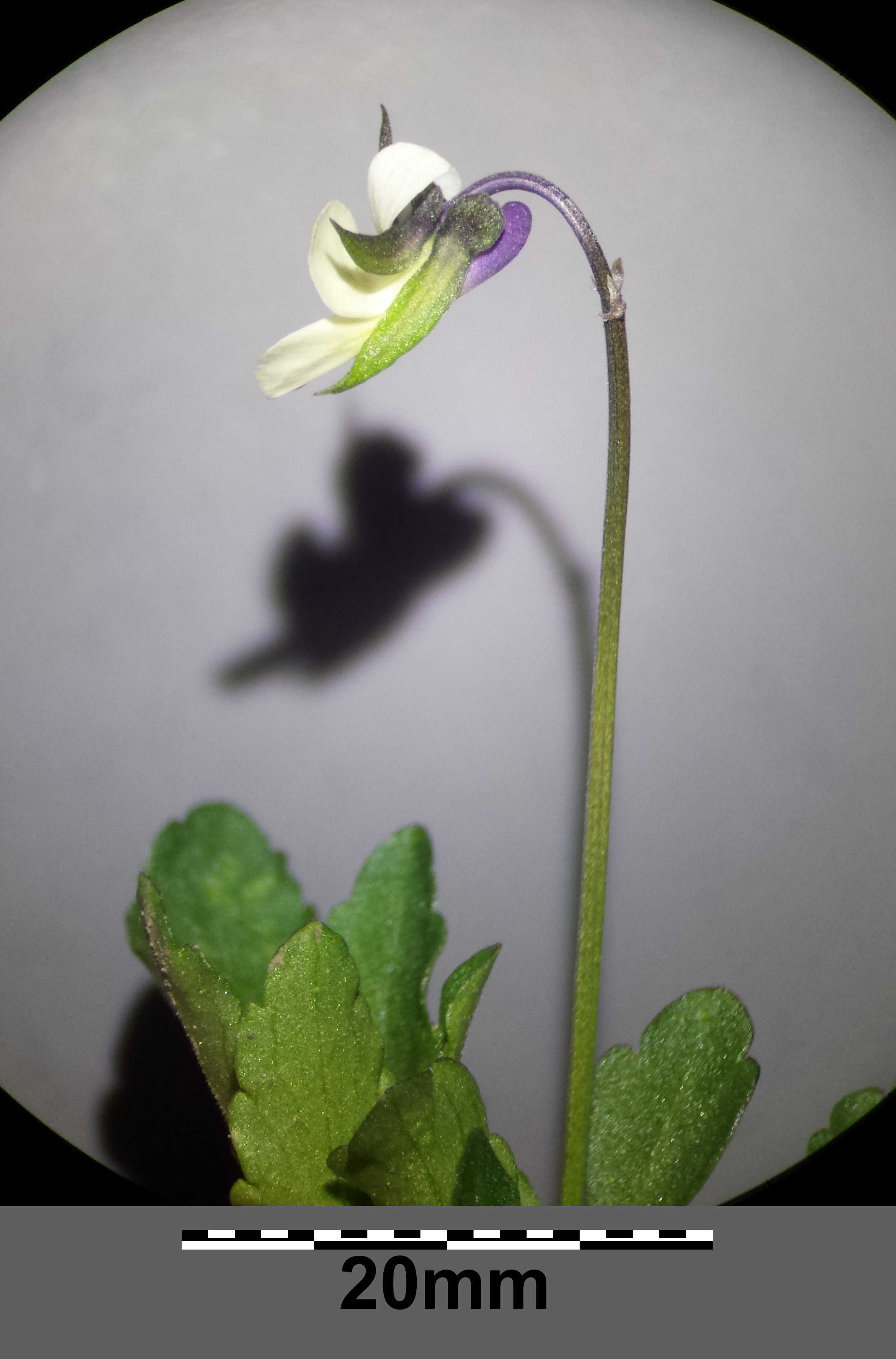 Flower with pedicel Taxonym: Viola arvensis subsp. arvensis ss Fischer et al. EfÖLS 2008 ISBN 978-3-85474-187-9 Location: Waschberg near Leitzersdorf, district Korneuburg, Lower Austria - 290 m a.s.l. Habitat: field